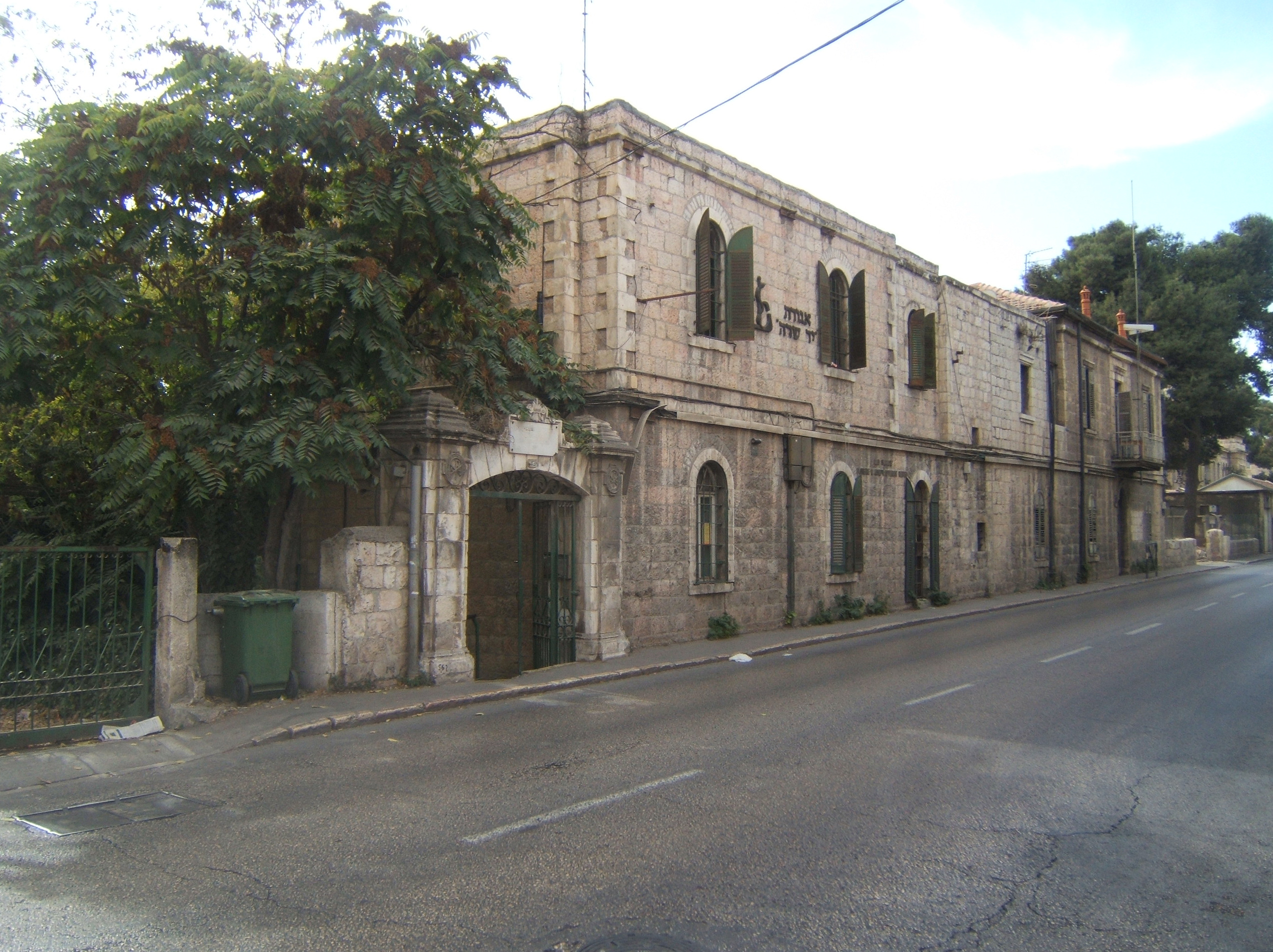 43 Street of Prophets, Jerusalem